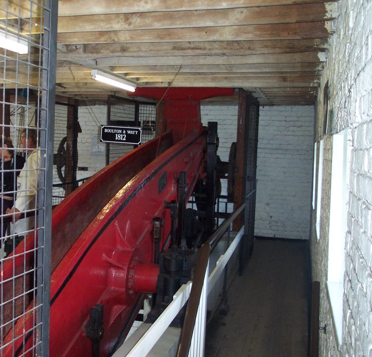 The beam gallery at Crofton Pumping Station, with the 1812 engine in use. Photograph taken by chris_j_wood on the 26th September 2004, with original filename DCP_3533.jpg.